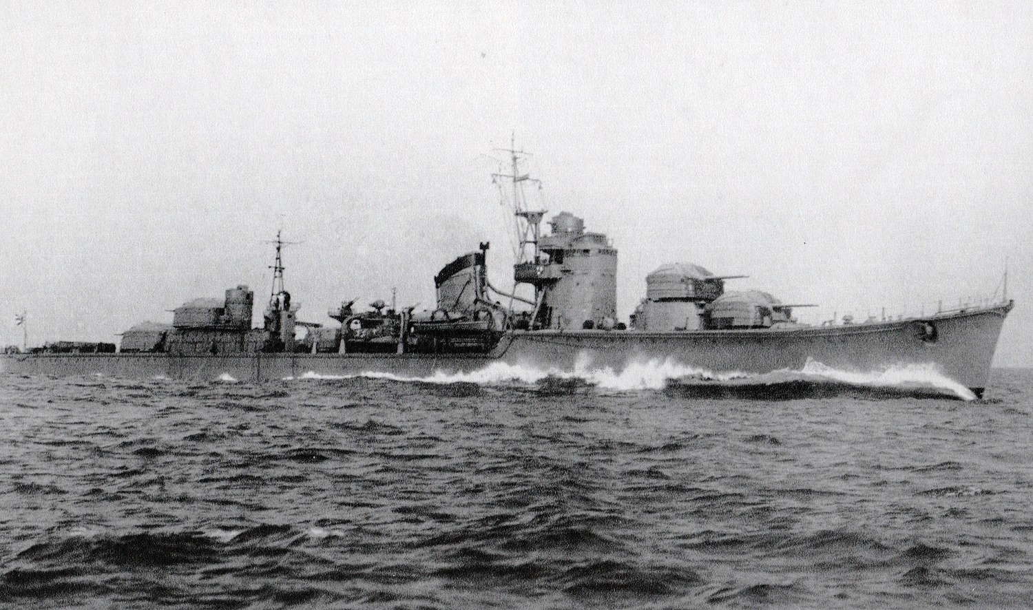 Imperial Japanese Navy Destroyer Hatsuzuki (Akizuki-class) on trial run.